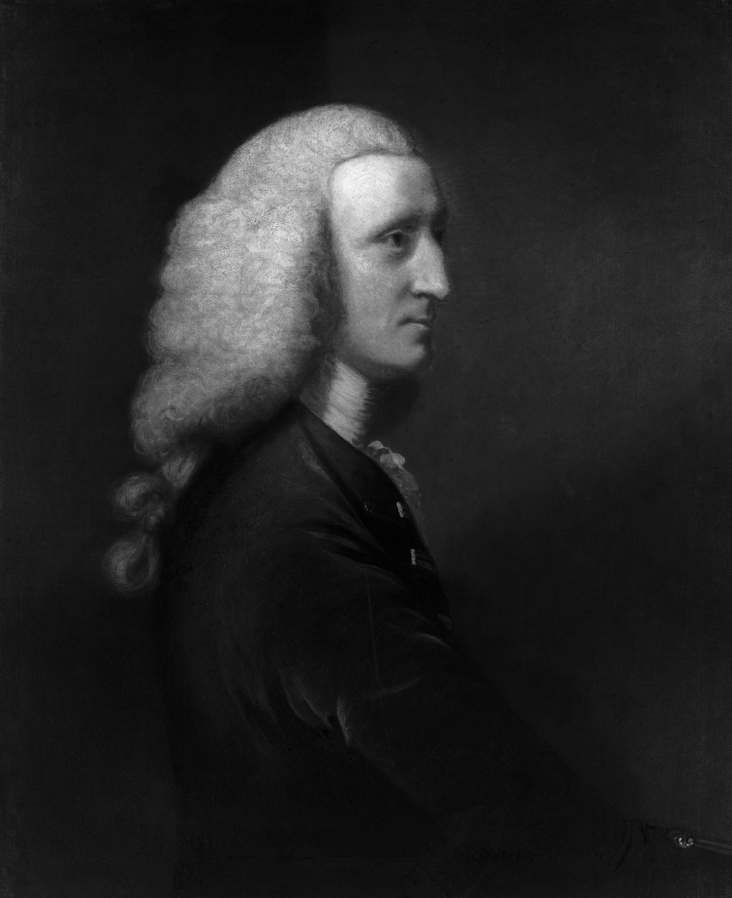 George Lyttelton, 1st Baron Lyttelton, by unknown artist, given to the National Portrait Gallery, London in 1861. All images in this batch are listed as "unknown author" by the NPG, who is diligent in researching authors, and was donated to the NPG before 1939 according to their website.